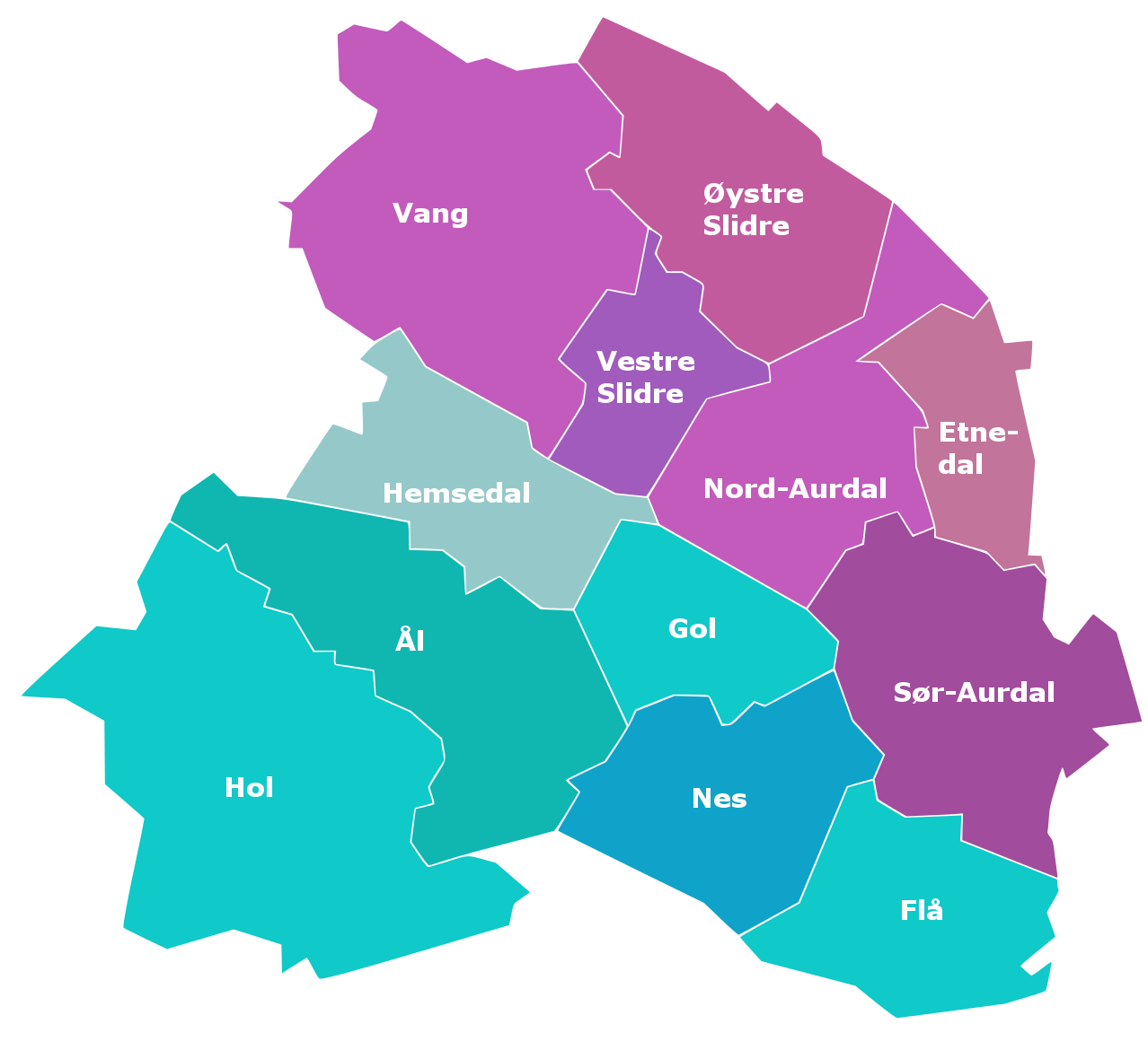 Map of Hallingdal and Valdres, based on this image.